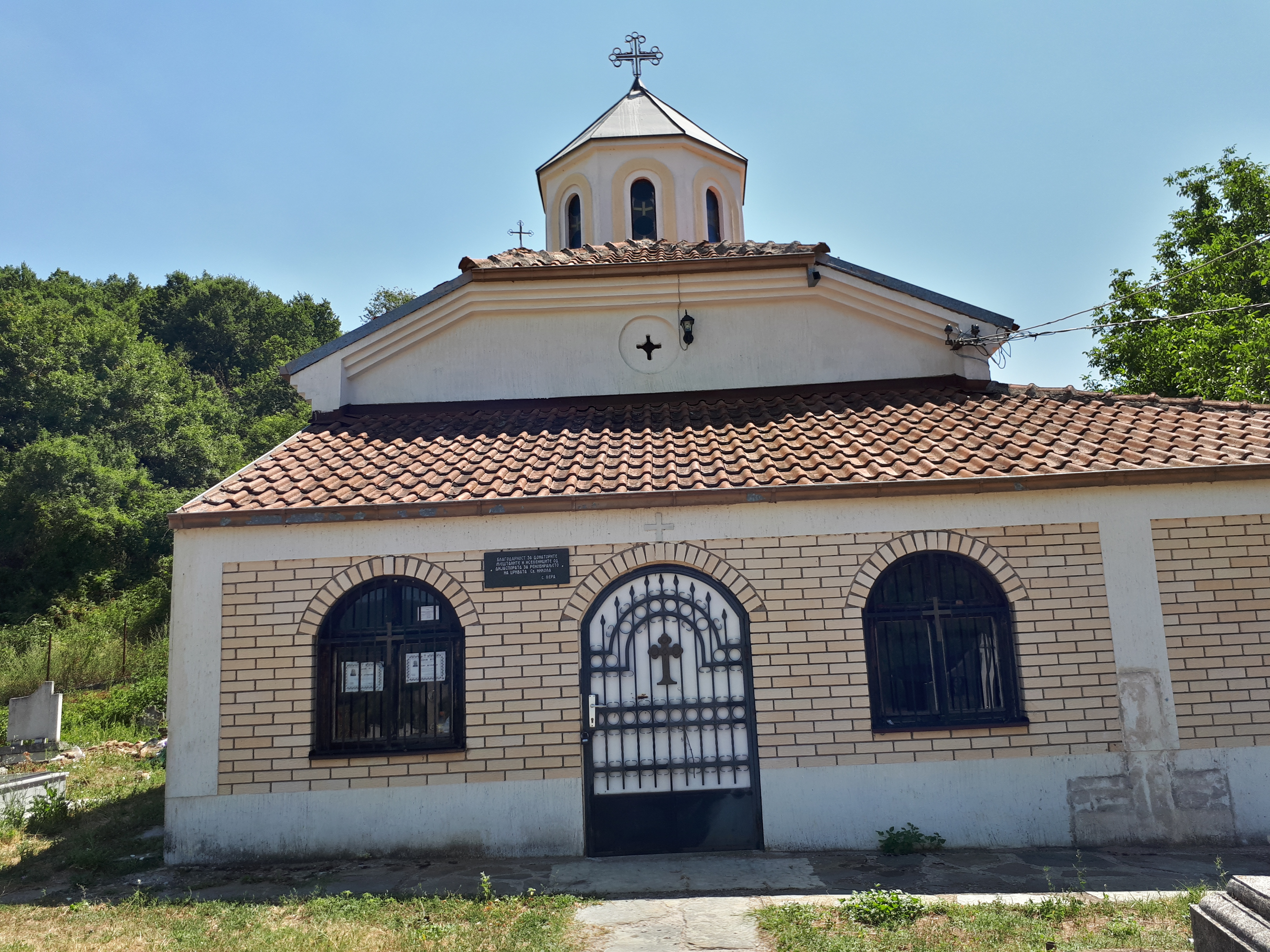 Part of the Veloexpedition in 2017